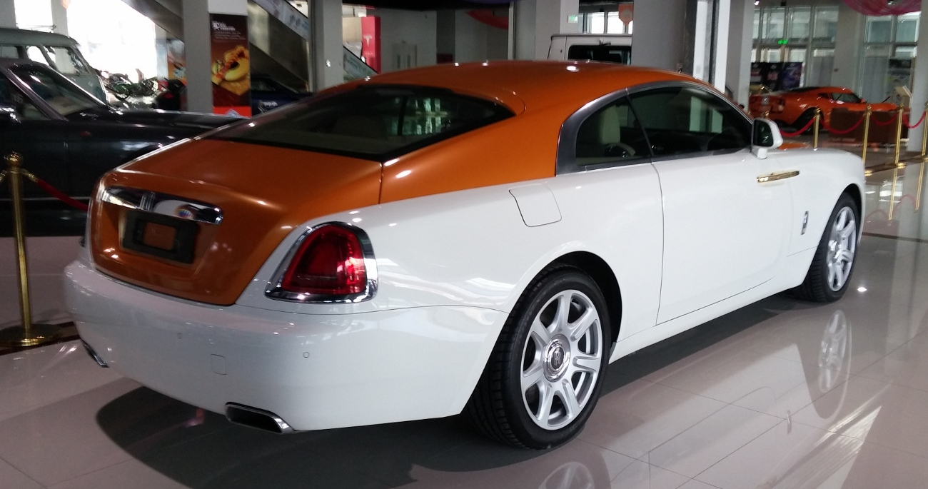 Rolls-Royce Wraith photographed in Beijing, China.